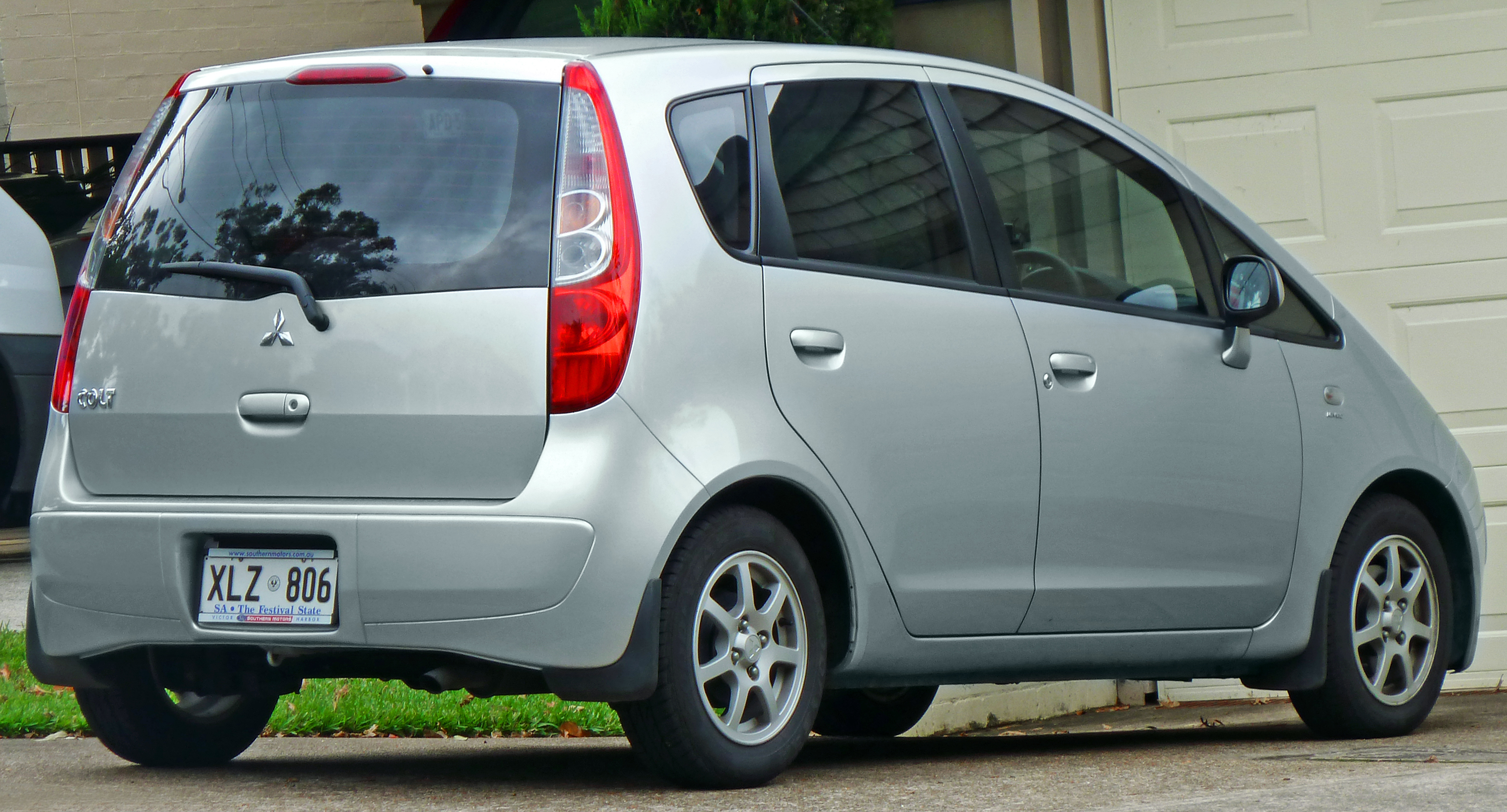 2006 Mitsubishi Colt (RG MY06.5) LS 5-door hatchback. Photographed in Lindfield, New South Wales, Australia.